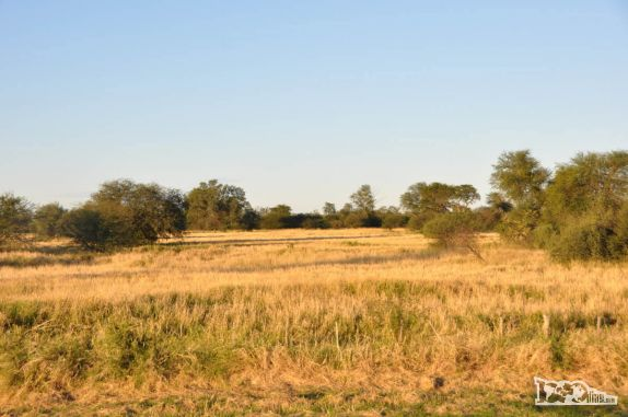 Campo savânico na região do Chaco